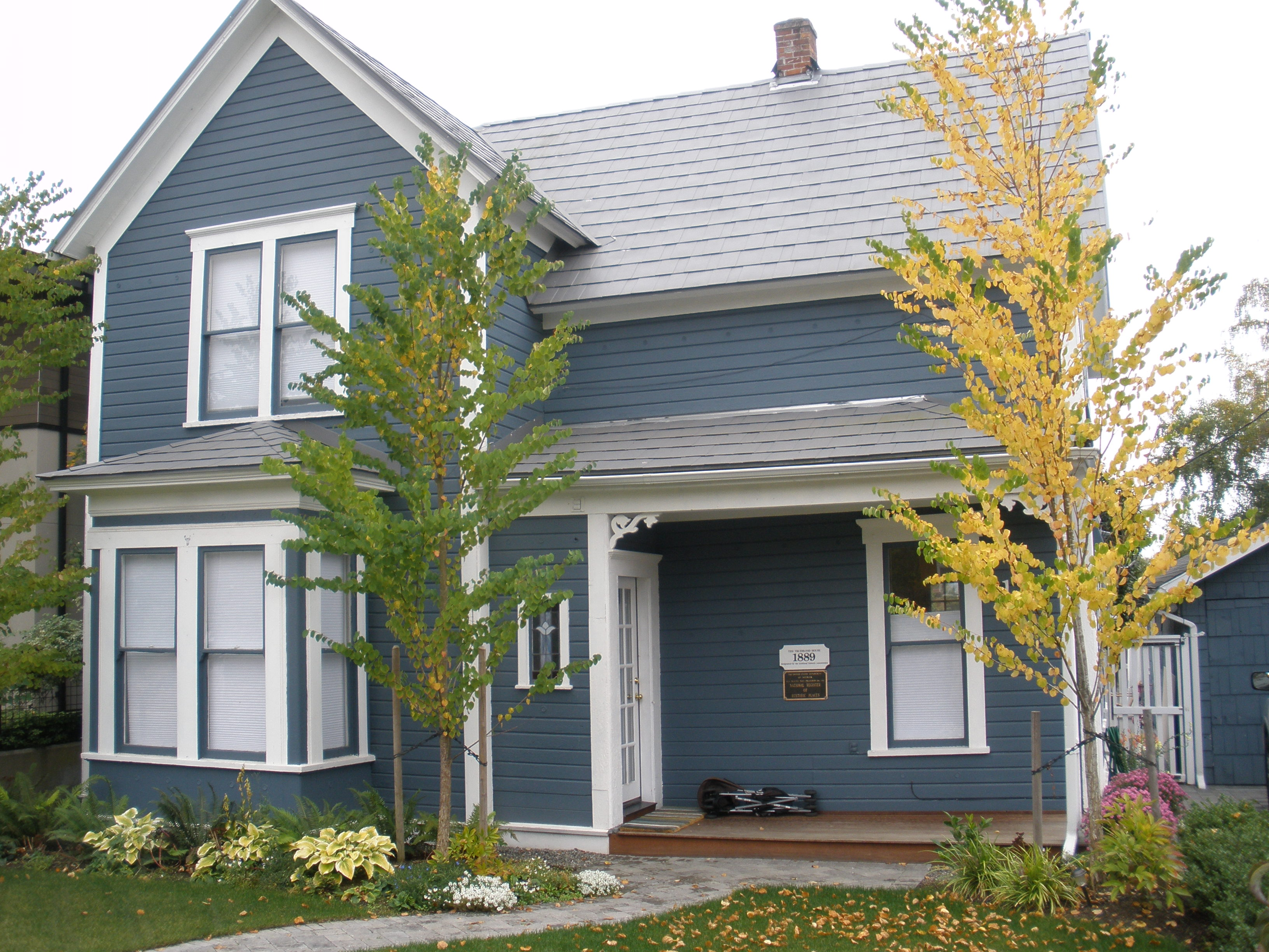 Dr. Trueblood House, built 1889 at 127 - 7th Avenue, Kirkland, Washington, plaque for National Register of Historic Places